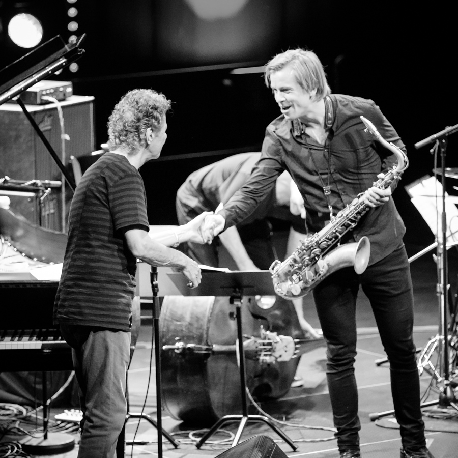 Chick Corea's Akoustic Band in Kongsberg Musikkteater. The concert was part of Kongsberg Jazzfestival and took place on 06. July 2018 in Kongsberg. Lineup:Chick Corea (piano)John Patitucci (double bass)Dave Weckl (drums)Marius Neset (saxophone)